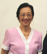 Former Philippine president at the 2009 Benigno S. Aquino, Jr. Award Ceremony.